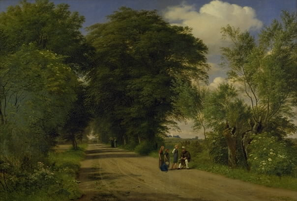 Landevej ved Herregaarden Vognserup (Landstraße in der Nähe des Vognserup-Besitzes); 112 cm x 162 cm